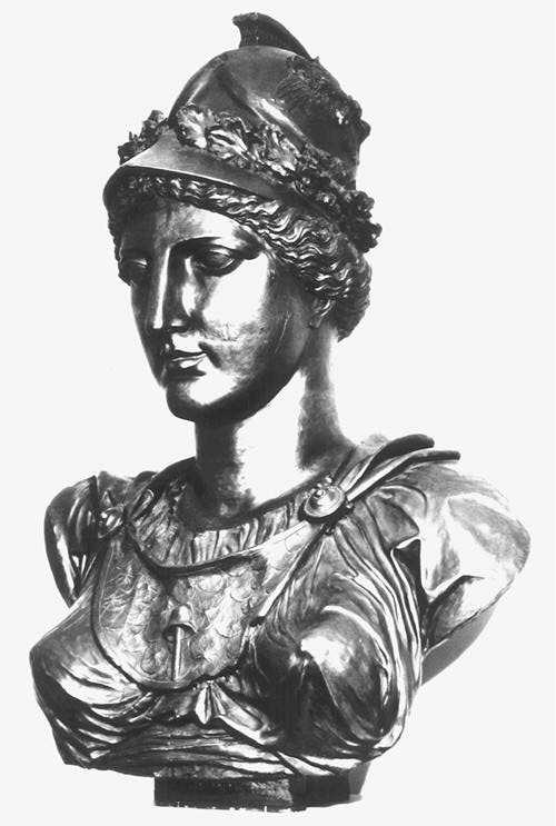 Giuseppe Ceracchi "Minerva as the Patroness of American Liberty," 1791 Copyprint of patinated terra cotta bust Library Company of Philadelphia